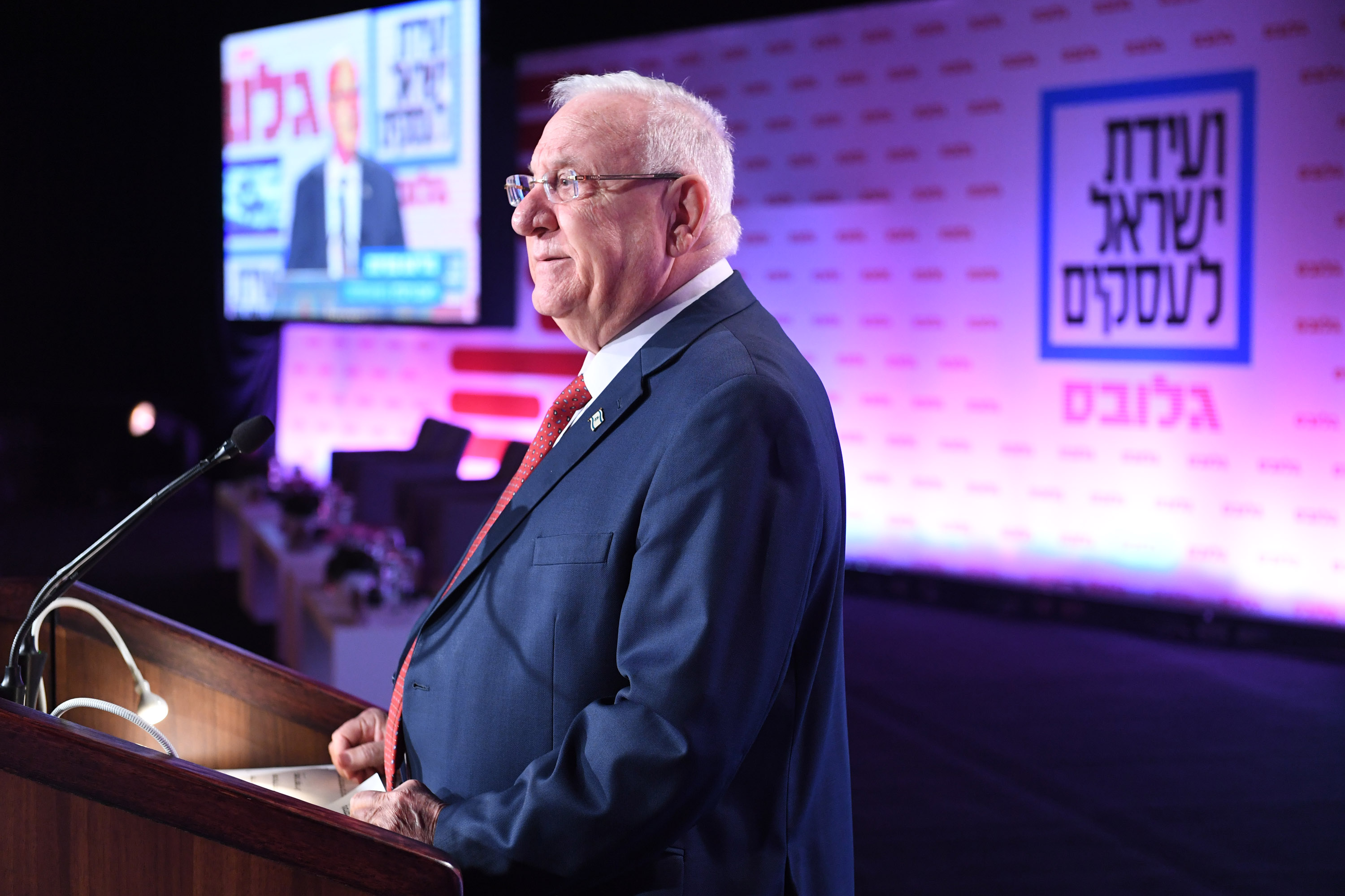 President of Israel, Reuven Rivlin, spoke at the Israel Business Conference held by Globes and referred to the shooting attack in which Rabbi Raziel Shevach was murdered. Wednesday, January 10, 2018. Photo Credit: Kobi Gideon / GPO. Depicted person: Reuven Rivlin – Israeli politician, 10th President of Israel Depicted place: International Convention Center , Jerusalem